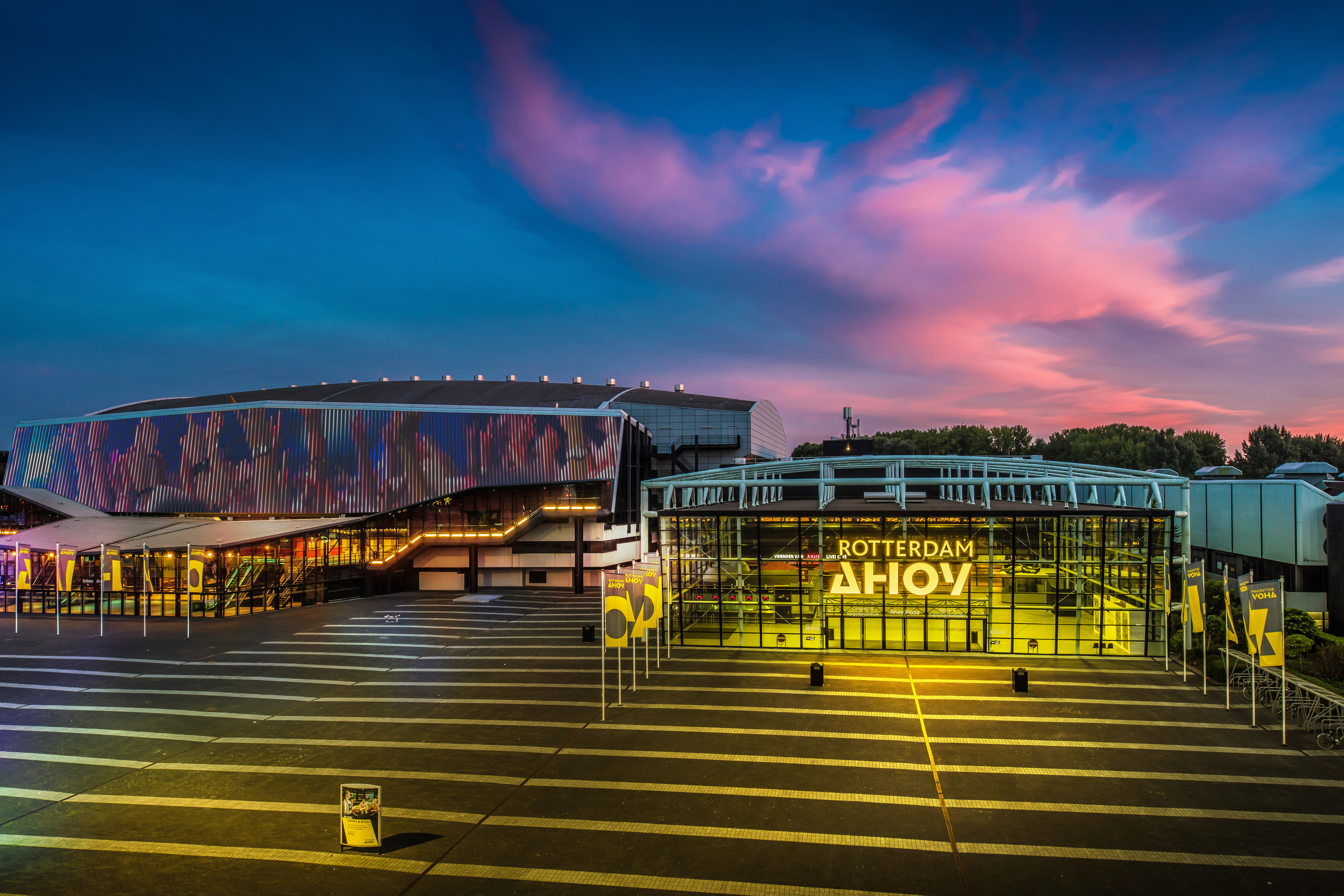 Entrance Rotterdam Ahoy 2016